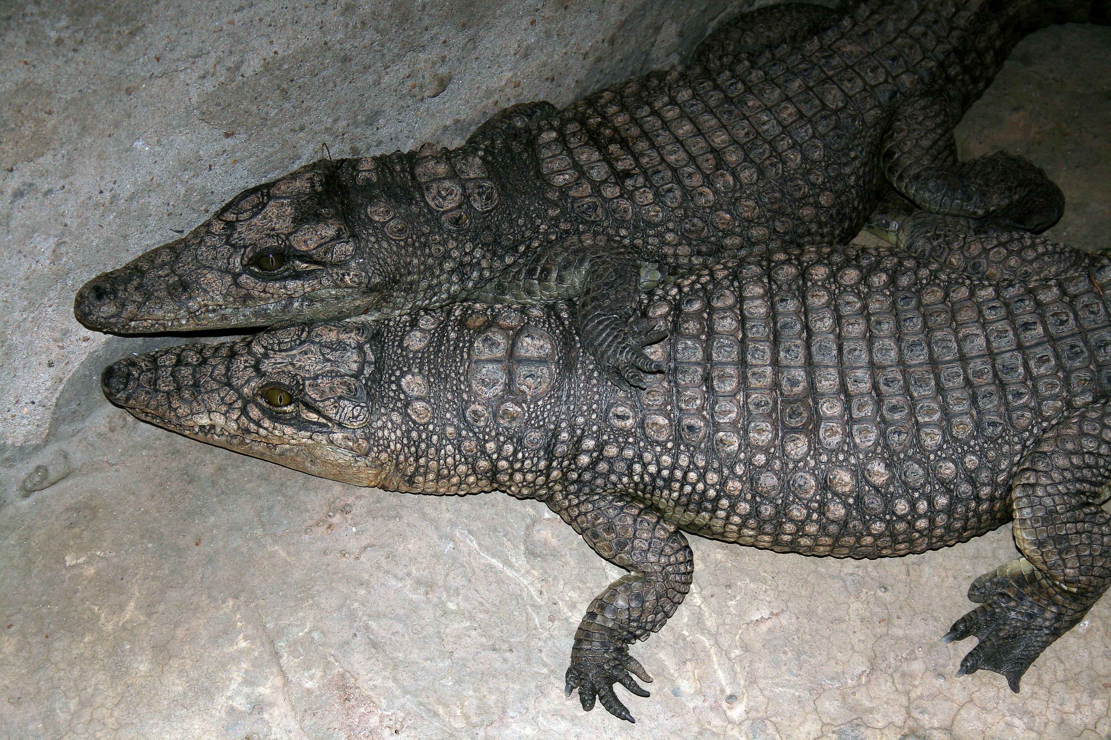 Two dwarf crocodiles (Osteolaemus tetraspis) aged about two years in a Nubian village in Aswan, Egypt.